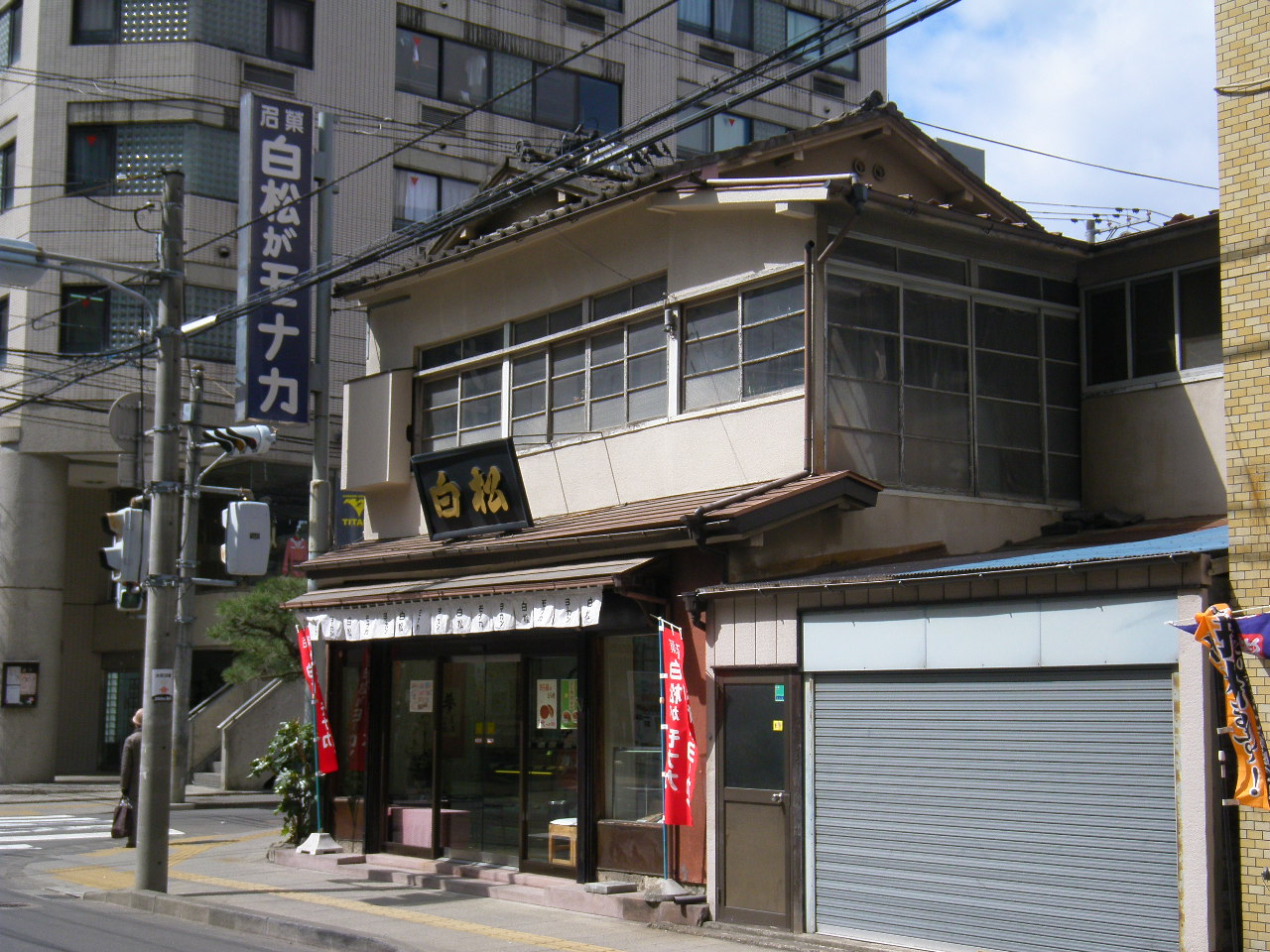 Shiromatsu-ga-Monaka's Omachi shop. Omachi, Aoba-ku, Sendai, Miyagi prefecture, Japan.